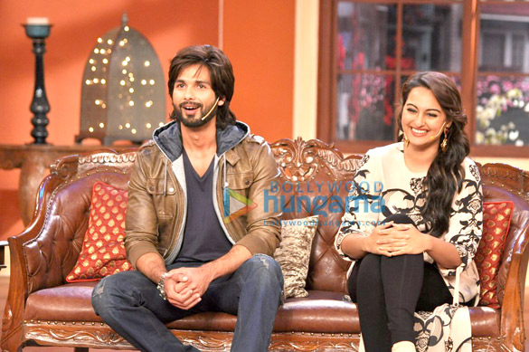 Shahid Kapoor and Sonakshi Sinha on the sets of Comedy Nights with Kapil promoting their 2013 film R... Rajkumar.